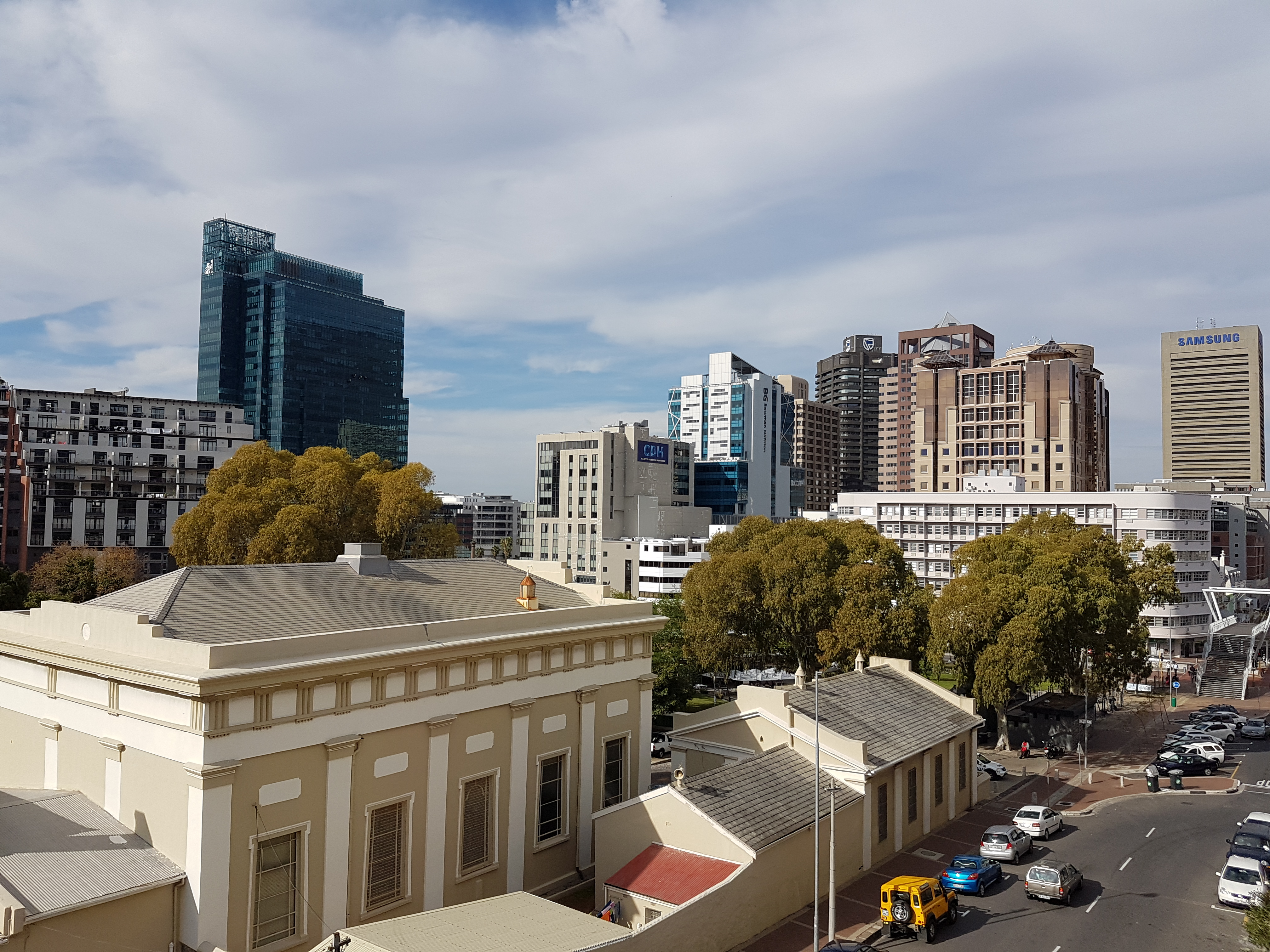 Cape Town CBD skyline as seen from a rooftop in the De Waterkant neighborhood.